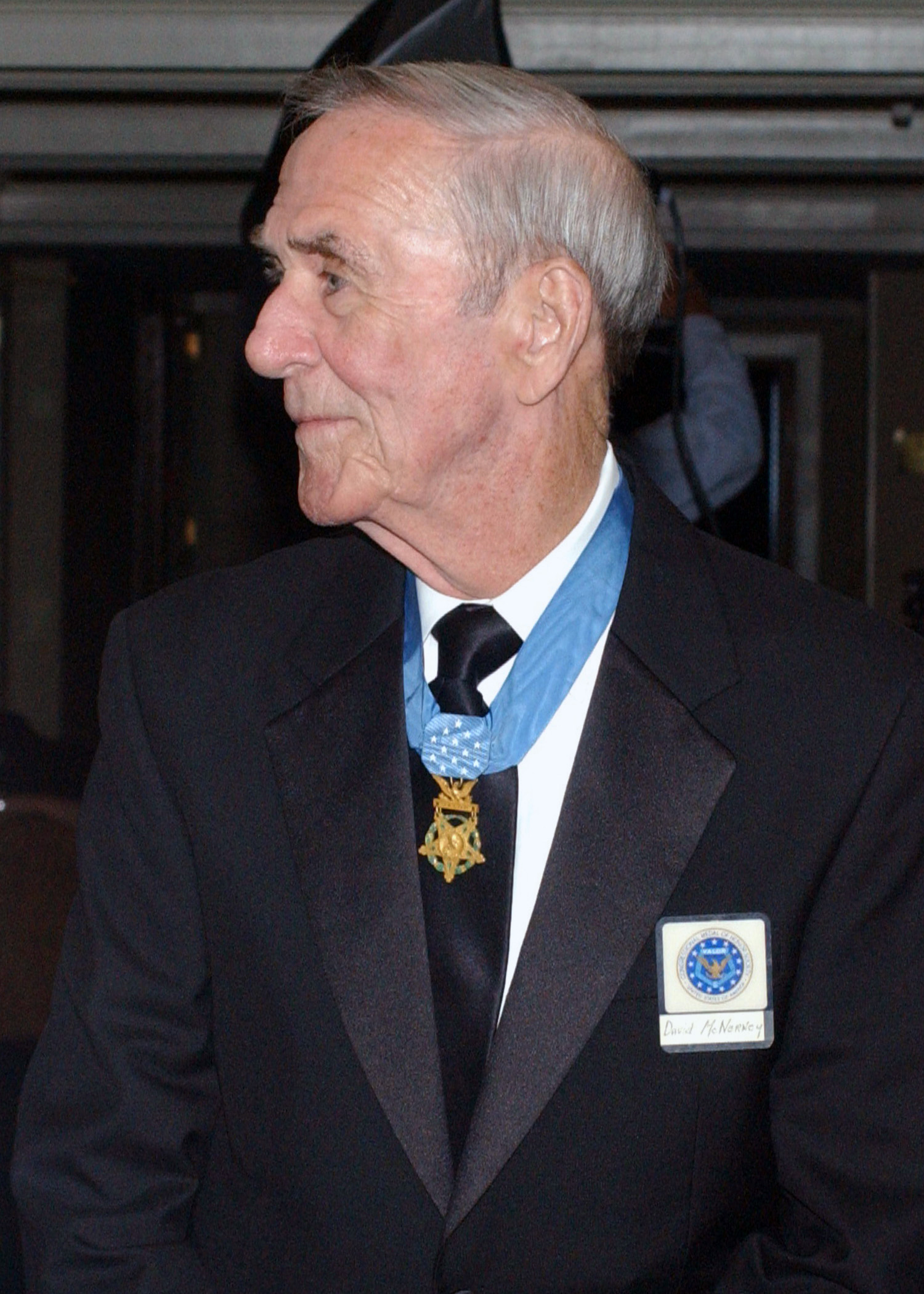 David McNerney, a retired U.S. Army 1st Sergeant from Company A, 1st Battalion, 8th Infantry Regiment, 4th Infantry Division, and Medal of Honor recipient, attends the Victorian Gala Ball at the historic Sheraton Gunter Hotel during Fiesta Week at San Antonio, Texas, on April 4, 2005.